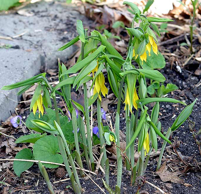 Self made picture of Uvularia grandiflora.